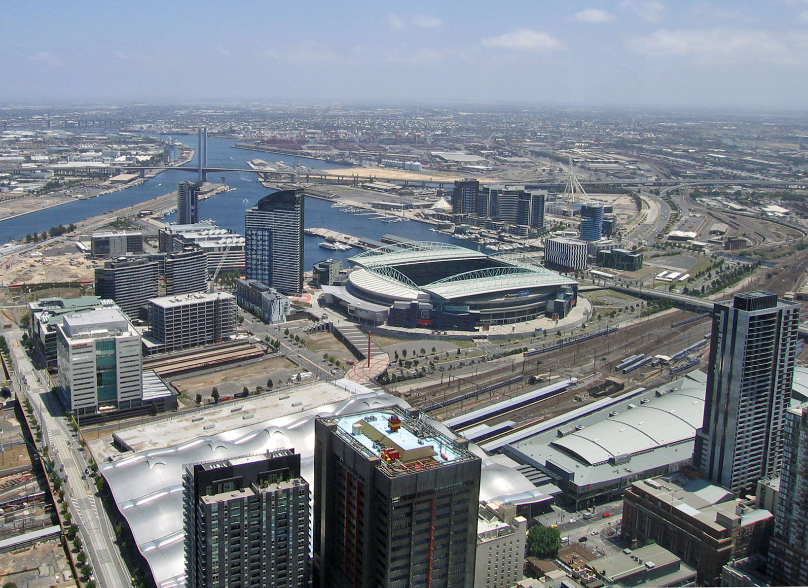 Telstra Dome seen from Rialto Towers